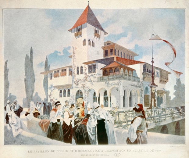 Bosnia & Herzegovina Pavilion by Alphonse Mucha – illustration featured in 'Le Figaro Illustré', The Exposition Universelle of 1900